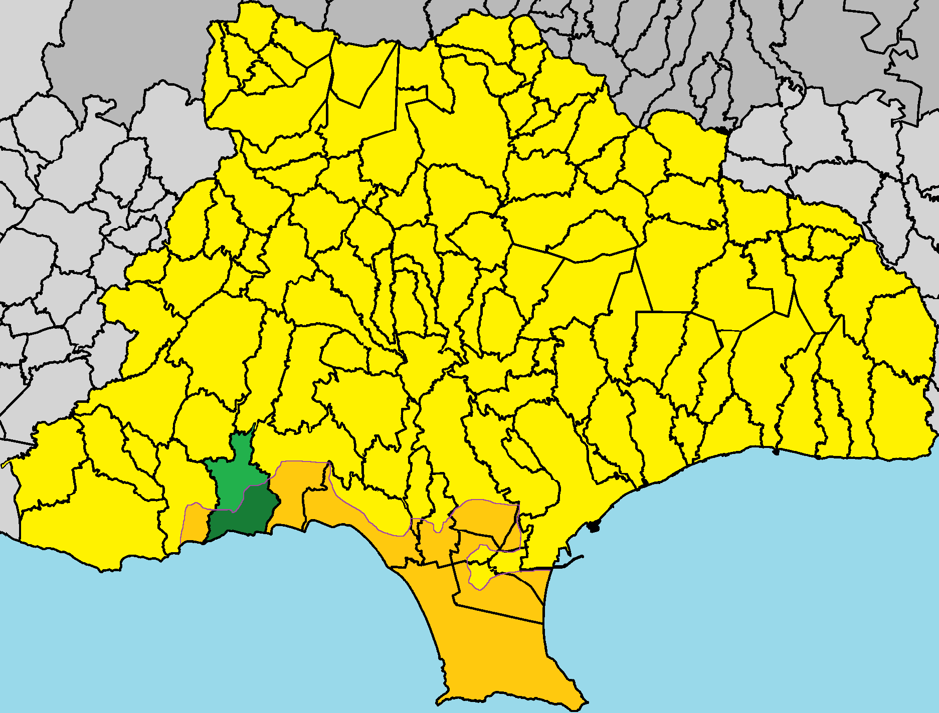 Paramali in Limassol District.